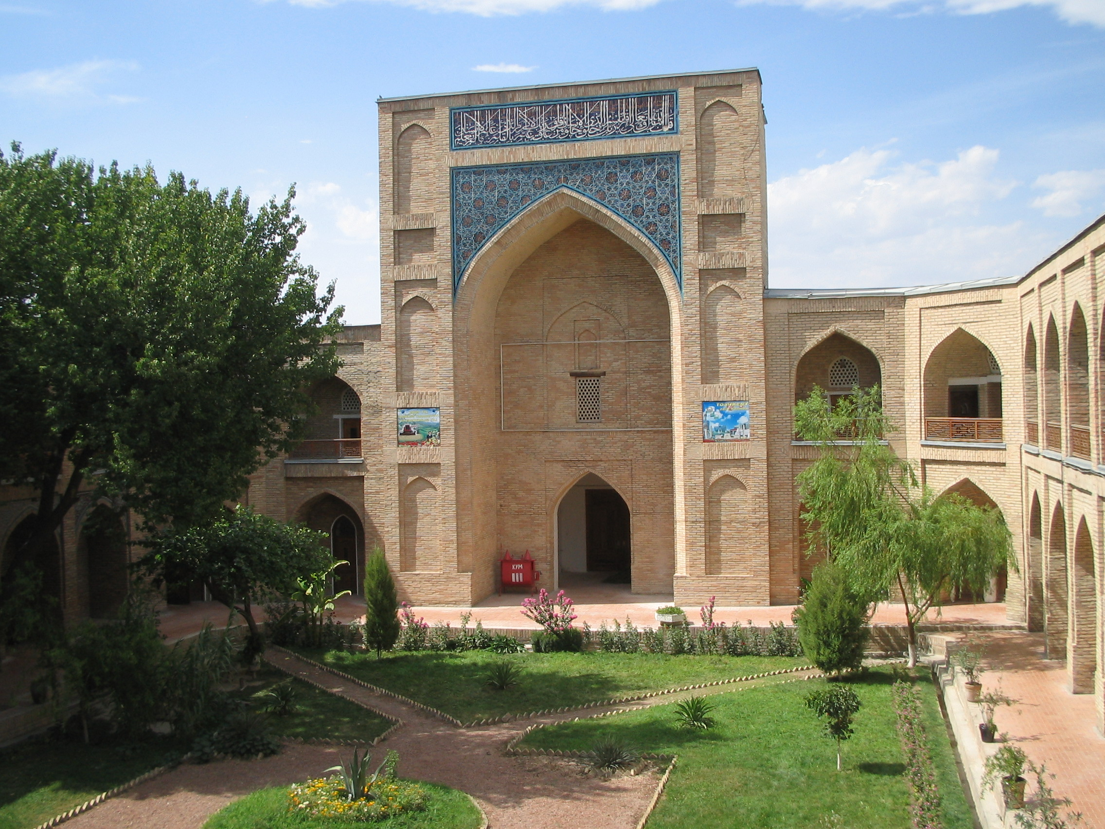 Kukaldosh madrassah Tashkent